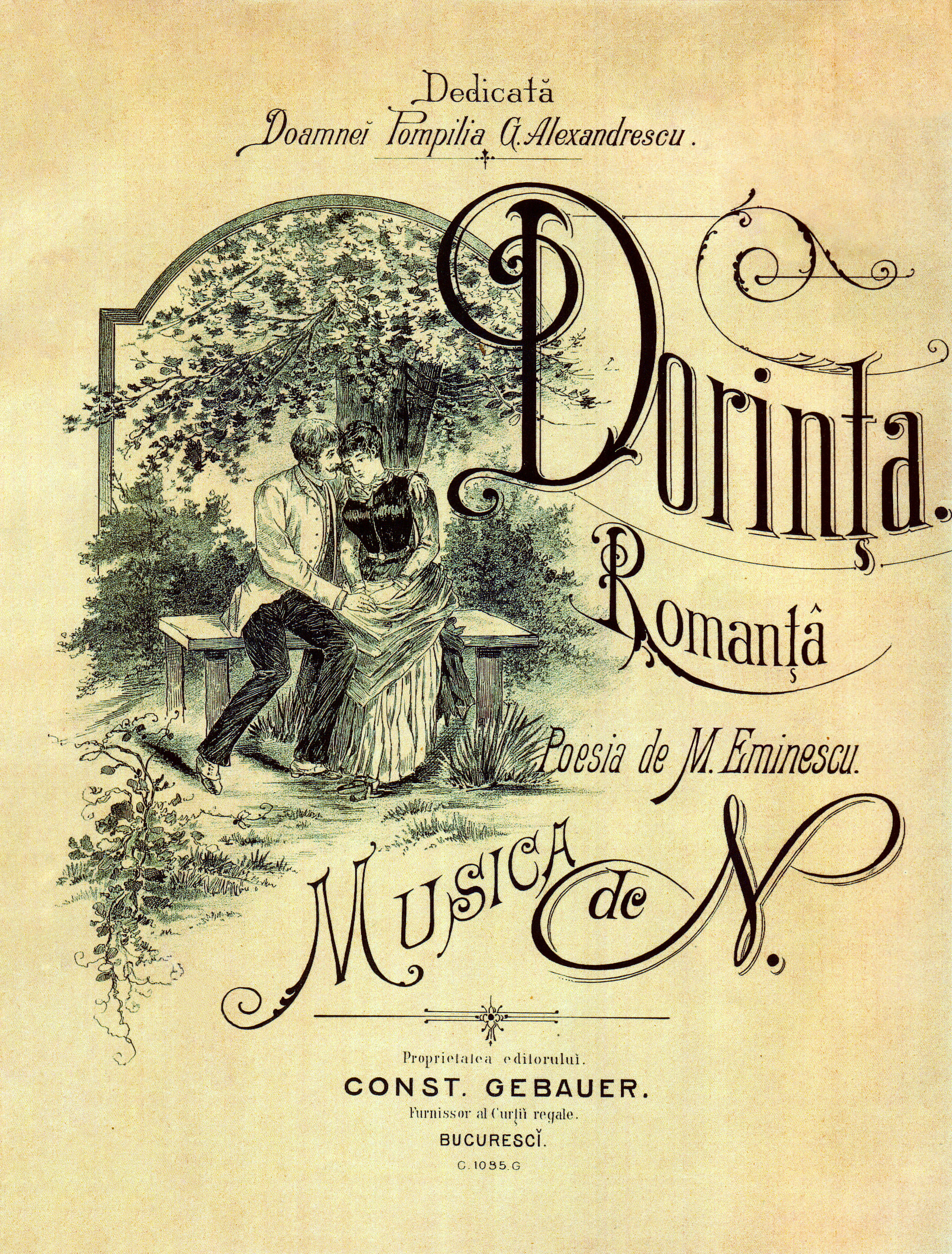 Sheet music cover for "Dorinţa" (en. "The Longing"), a lied for soprano and piano written by N., a composer from Romania who refused to disclose his identity. Lyrics by Romanian poet Mihai Eminescu. Dedicated to Mrs. Pompilia G. Alexandrescu, presumably the composer's amour. Published by Constantin Gebauer, c. 1900. An English translation of the lyrics is available here. The image was created with a Canon CanoScan LiDE 35 scanner.